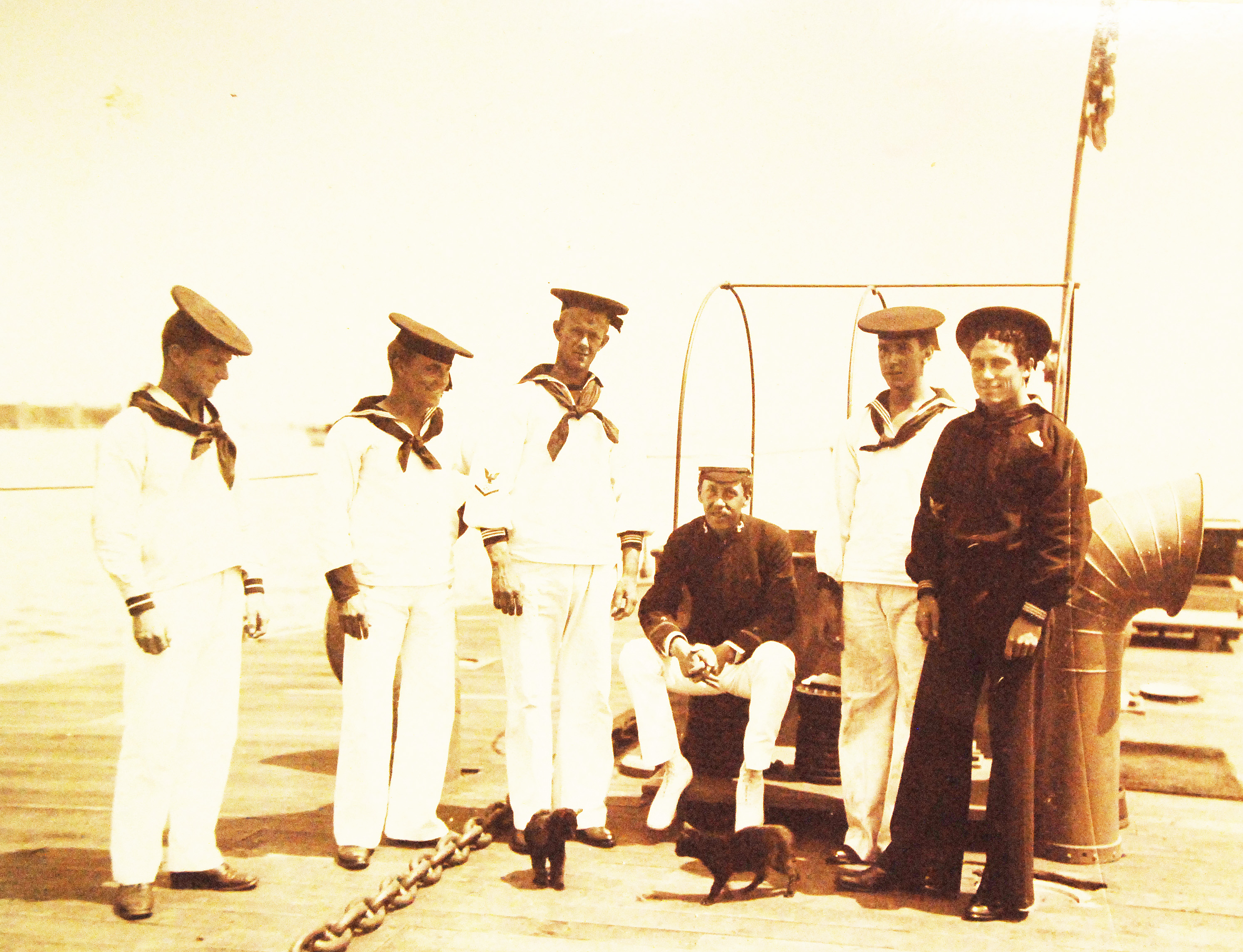 Lot 3000-D-7: U.S. Navy ironclad monitor, USS Nahant, ship mascot. Detroit Publishing Company, 1890-1910. Courtesy of the Library of Congress. (2016/03/18)